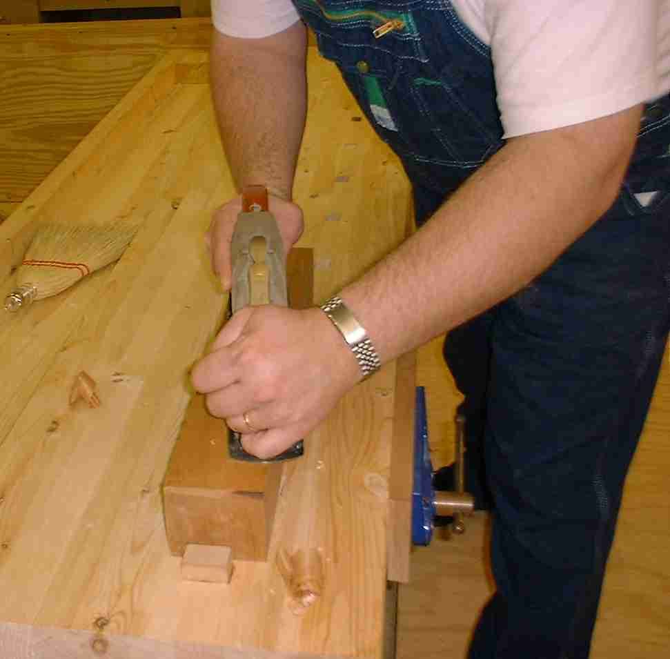 A board being planed against a stop